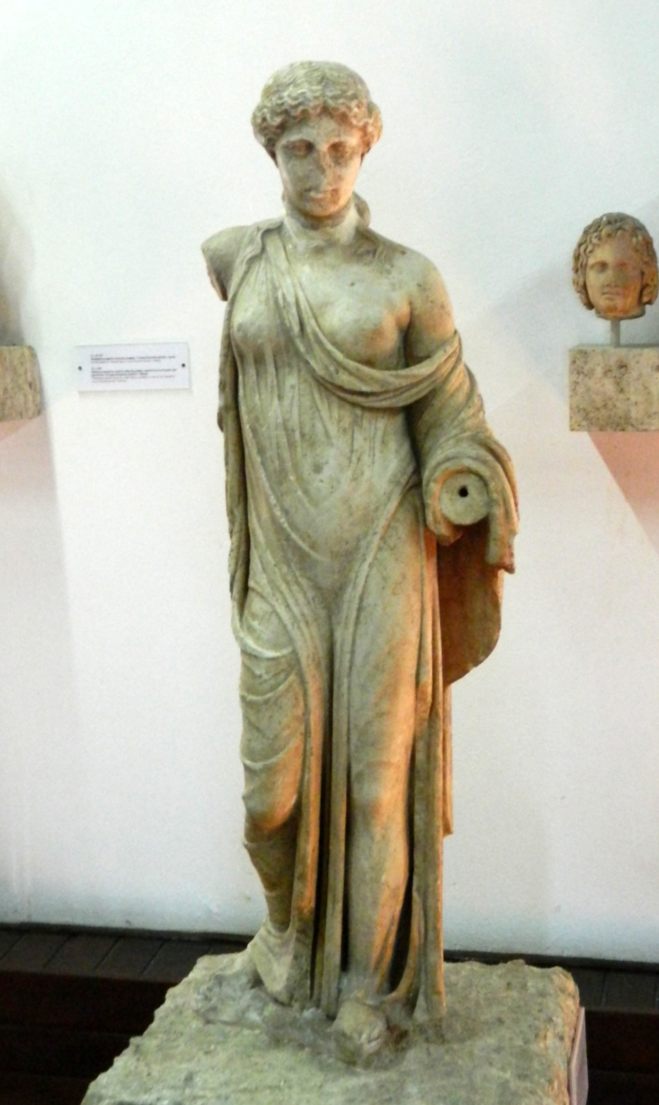 The marble statue of Aphrodite